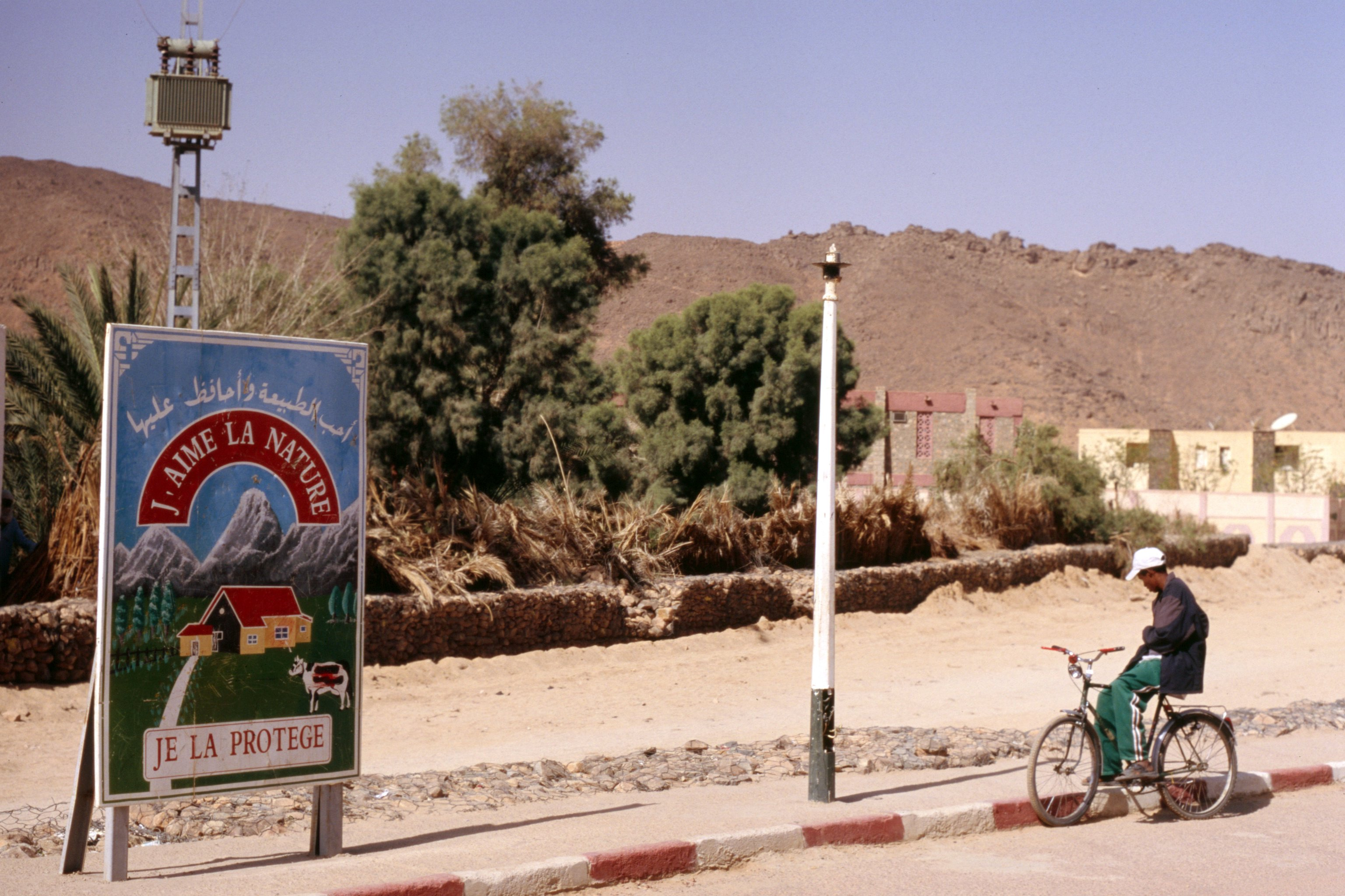 Illizi (Algeria)